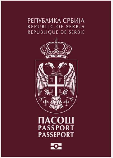 Front cover of a Serbian ordinary passport.